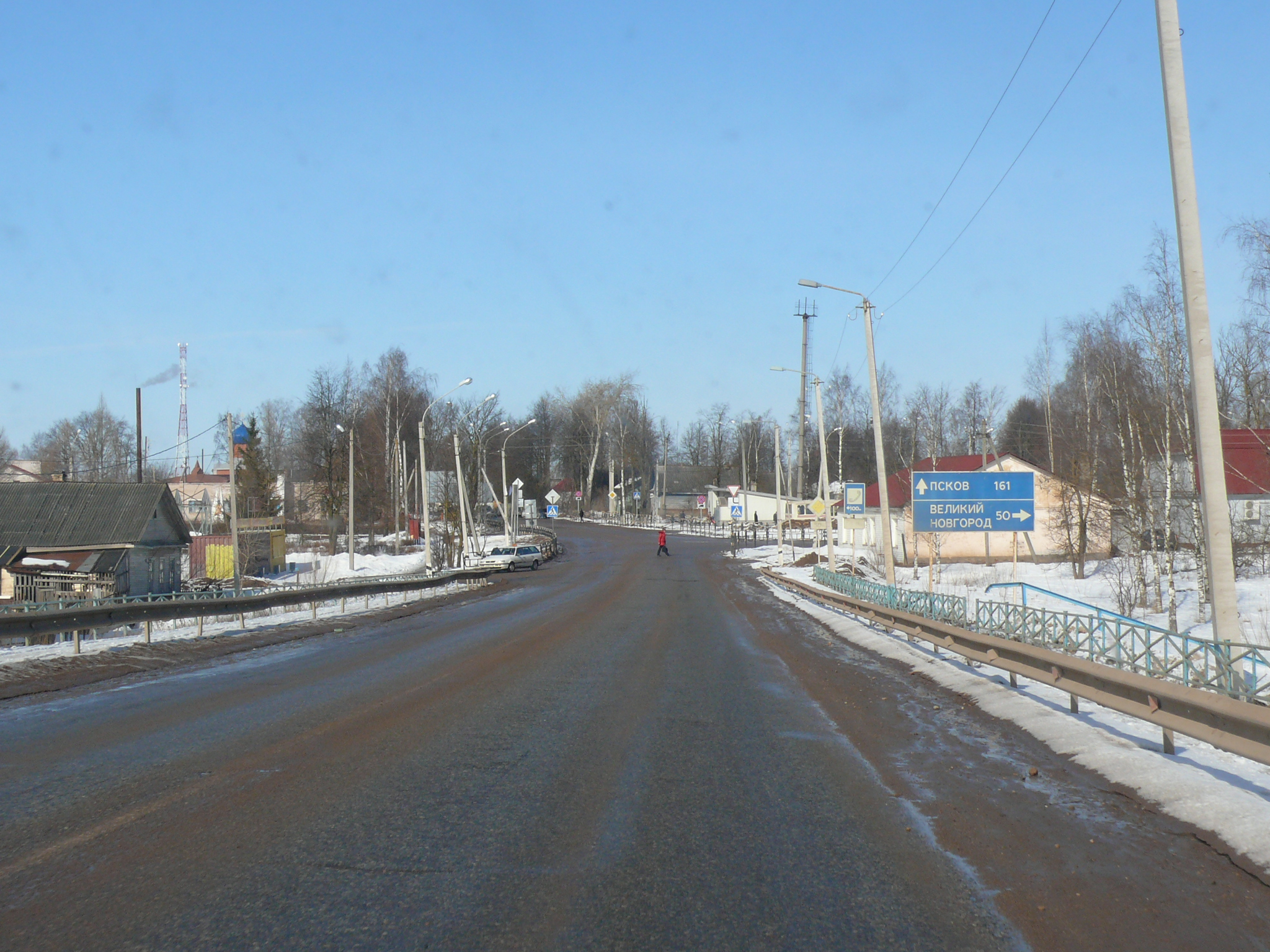 View at Shimsk village from the bridge across Shelon. Novgorod oblast, Russia